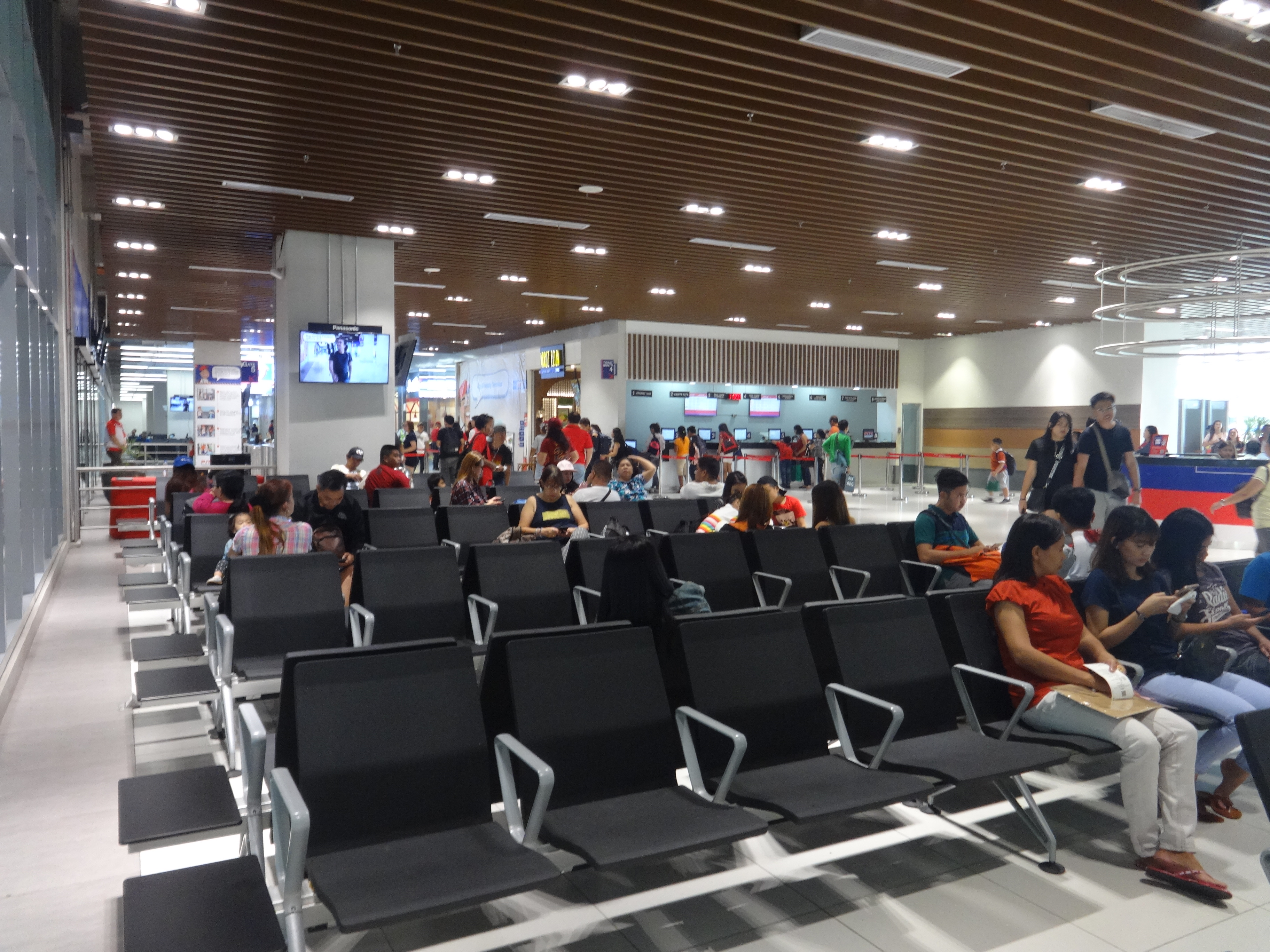 Ticketing hall of PITX bus terminal in Parañaque City